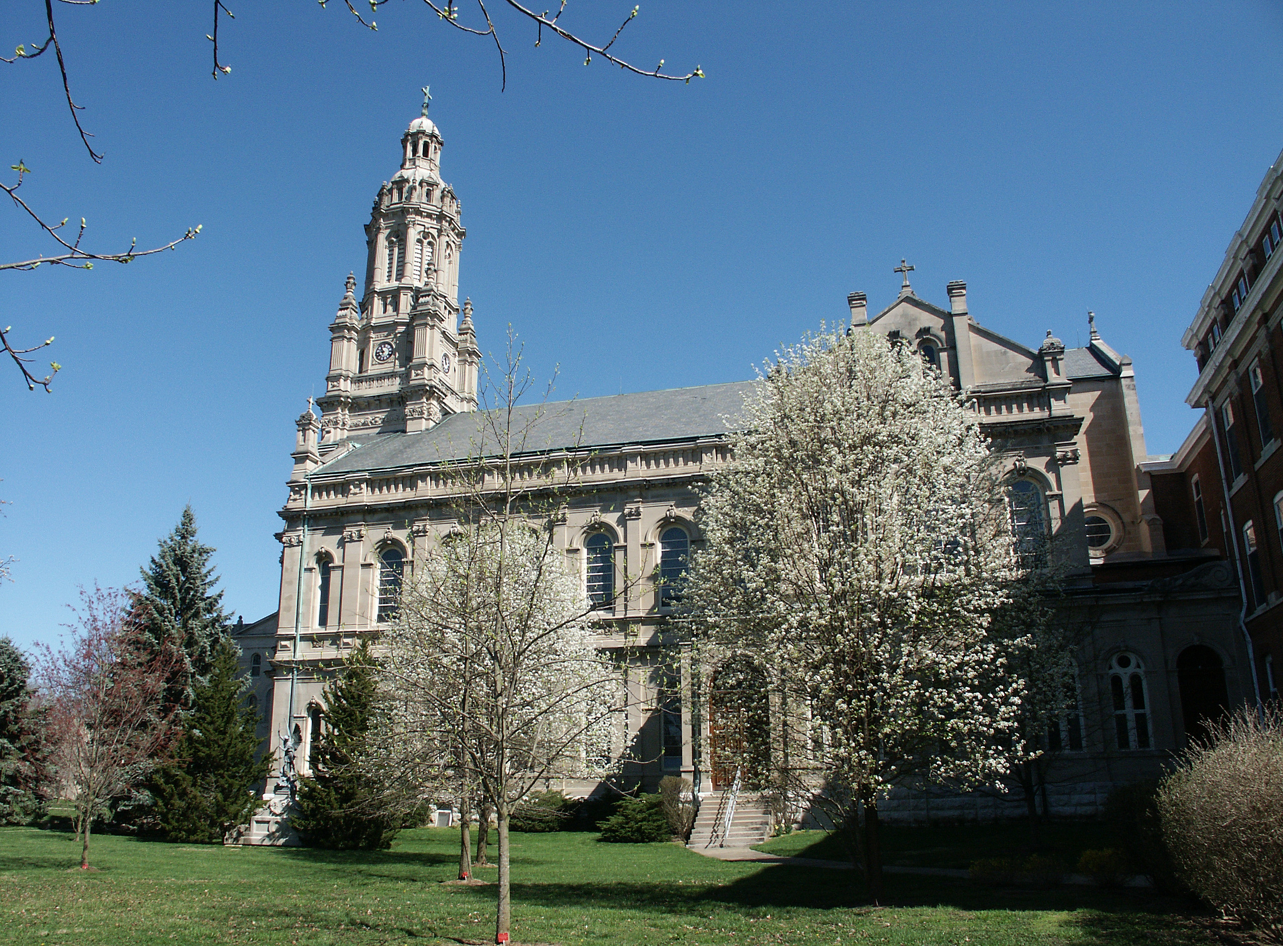 The Church of the Immaculate Conception, the main place of worship for the Sisters of Providence of Saint Mary-of-the-Woods. The church was completed in 1907.